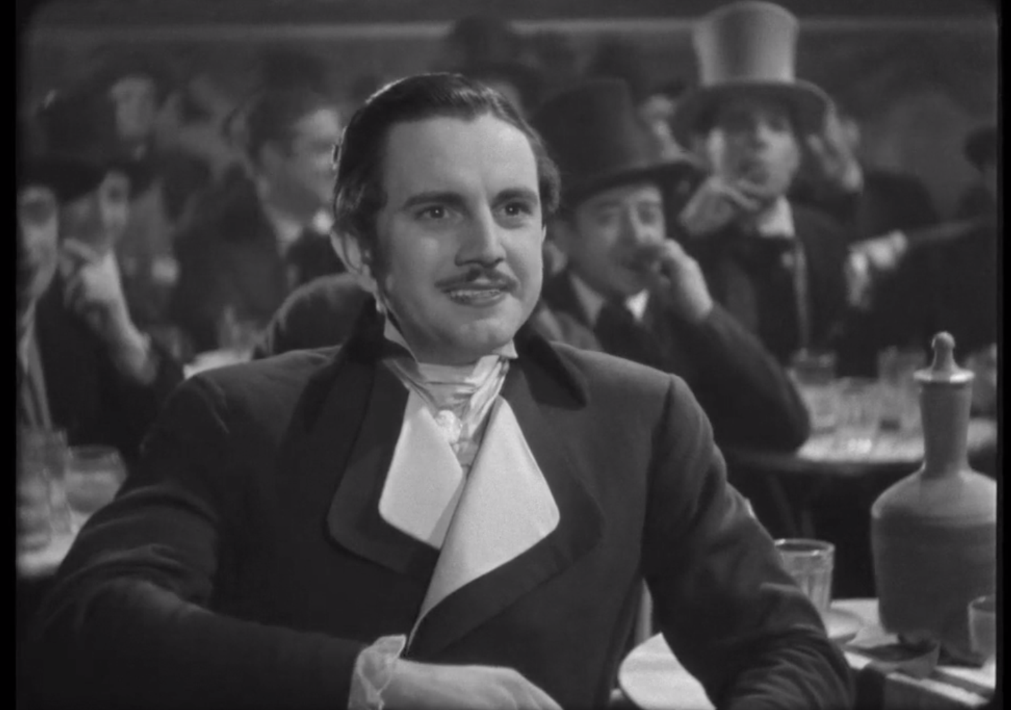 Actor Fernando Cortés in a scene from Doña Francisquita (1934)